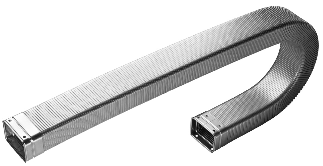 A cable drag chain of metal, complete closed, type: SFK